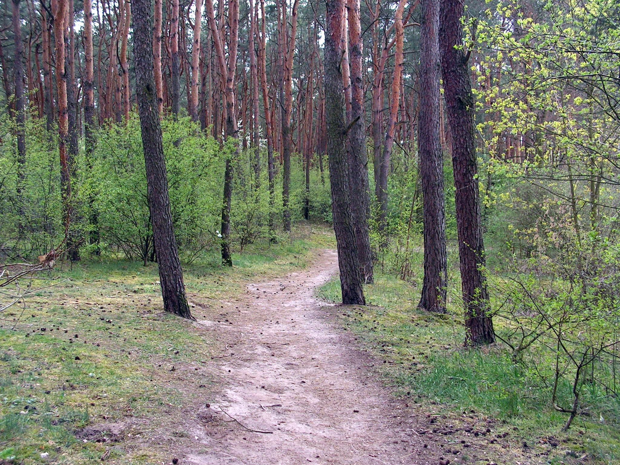 Path of communal forest on the area of former mill settlement Świech in Włocławek.